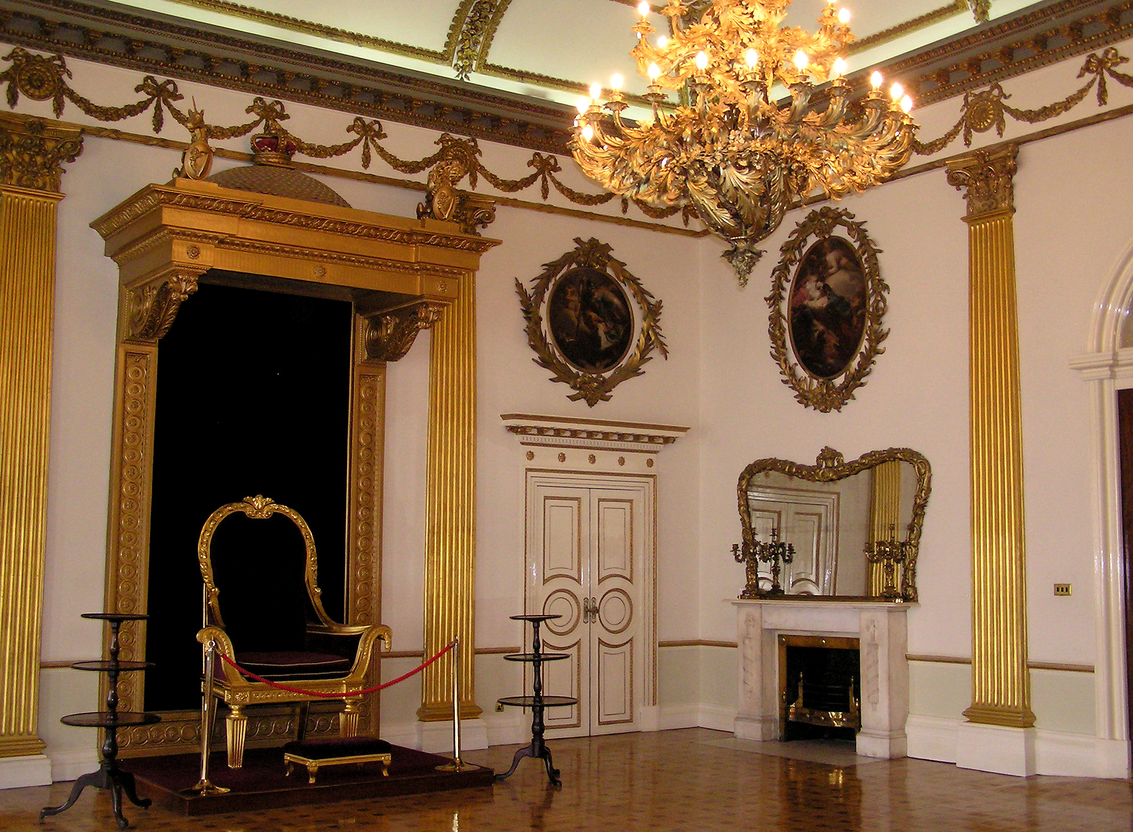 Dublin Castle (Throne), Ireland